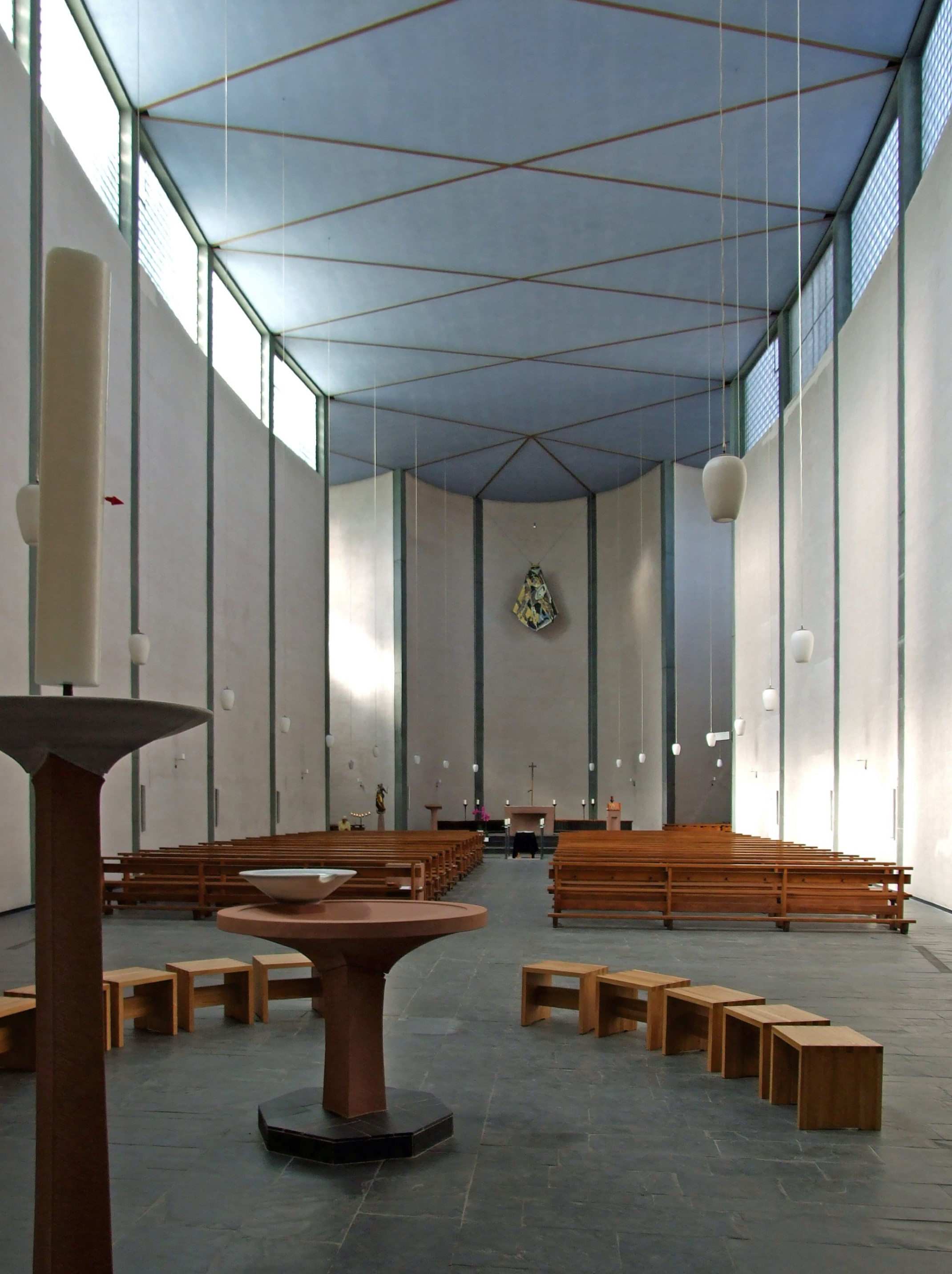 "St. Michael Church" (roman catholic) in Frankfurt am Main-Nordend, Germany